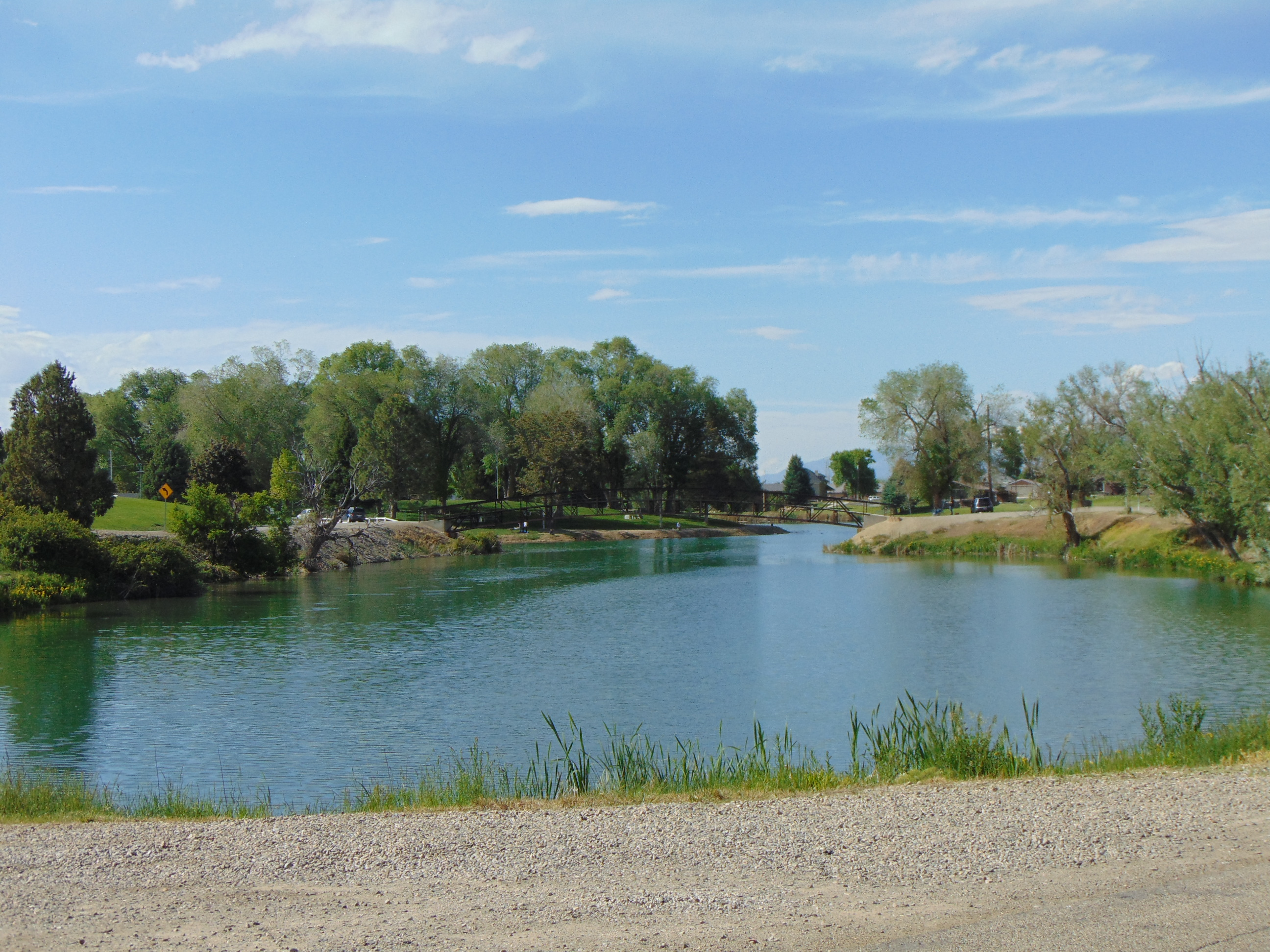 Looking north across Salem Lake (colloquially known as as Salem Ponds) in Salem, Utah, May 2016